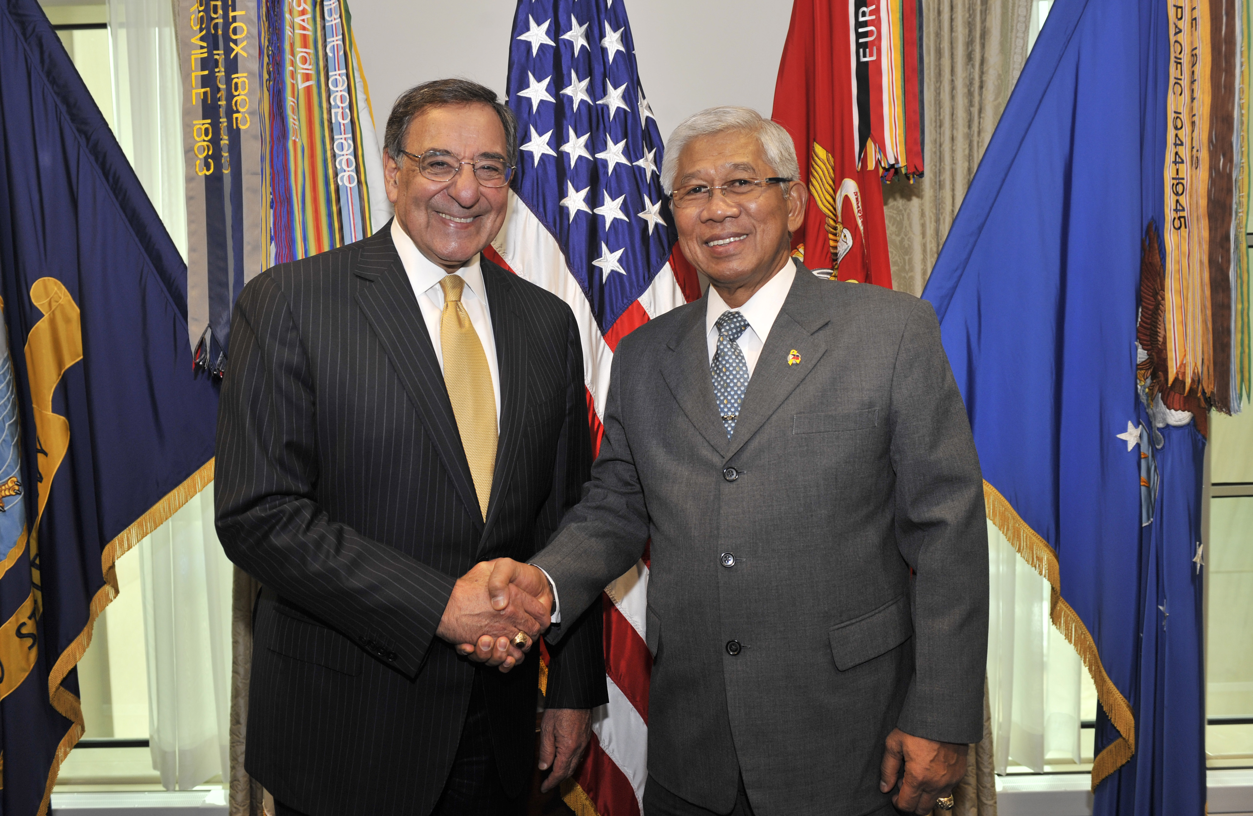 Secretary of Defense Leon E. Panetta and Philippines' Secretary of National Defense Voltaire Gazmin pose for an official photograph shortly before dinner at the Pentagon Monday, April 30, 2012. (DoD Photo By Glenn Fawcett)(Released)